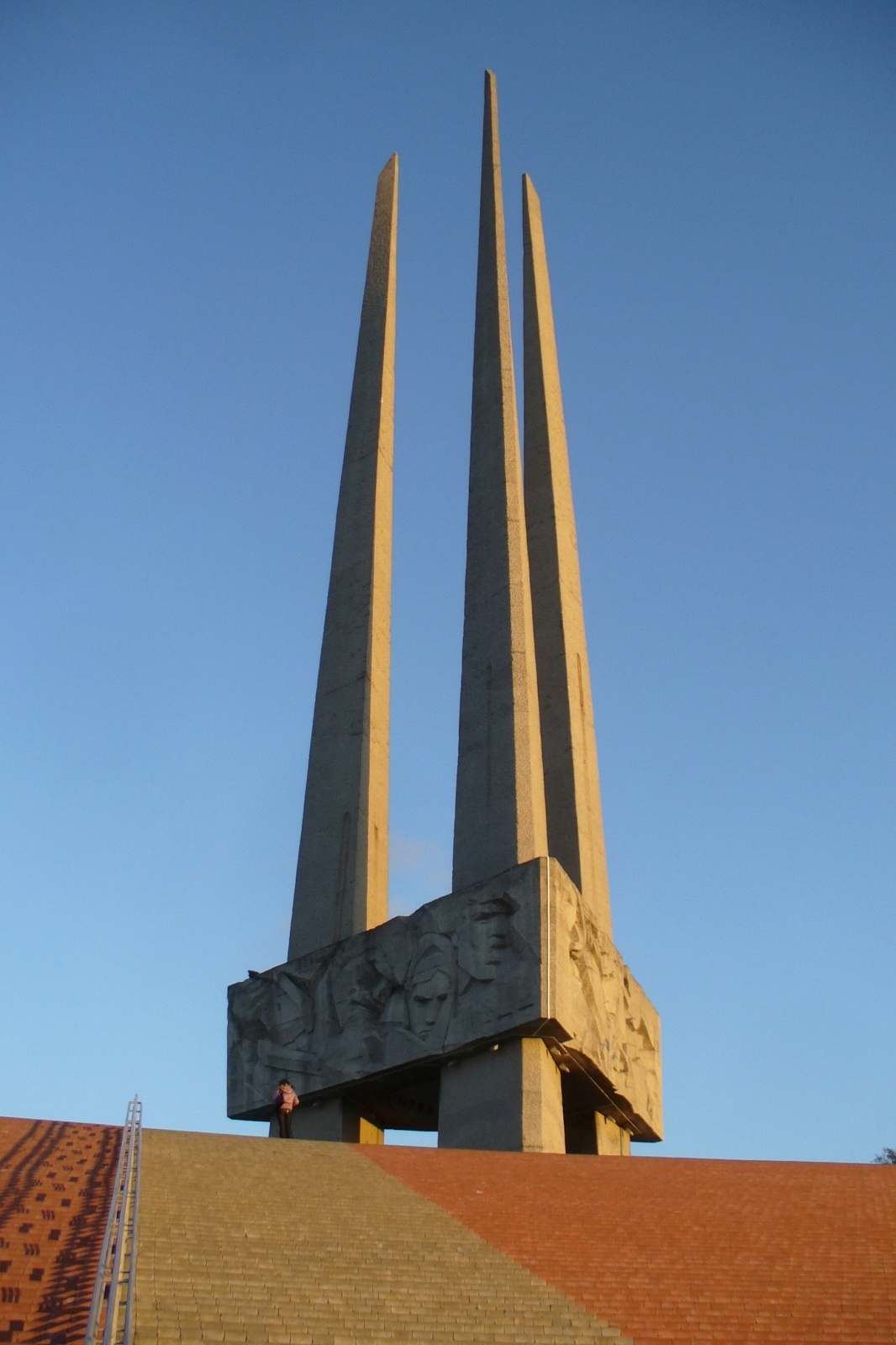 The main monument of the memorial complex at Vitebsk, created to commemorate the victory of Vitebsk-Orsha Offensive (June 1944)